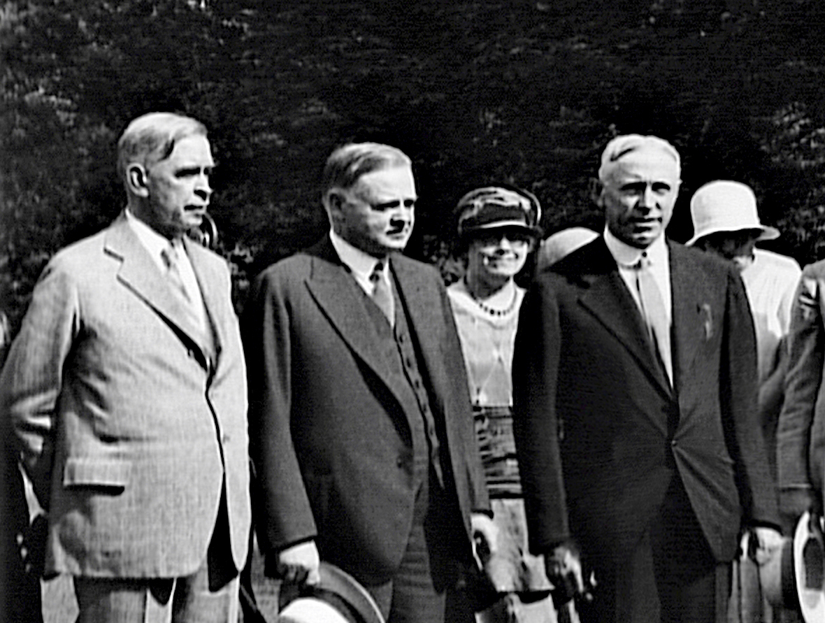 L-R Former RNC Chairman Herman Work, President Herbert Hoover, newly appointed RNC Chairman Claudius Hart Huston